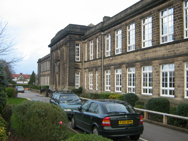 Harrogate Grammar School, main entrance